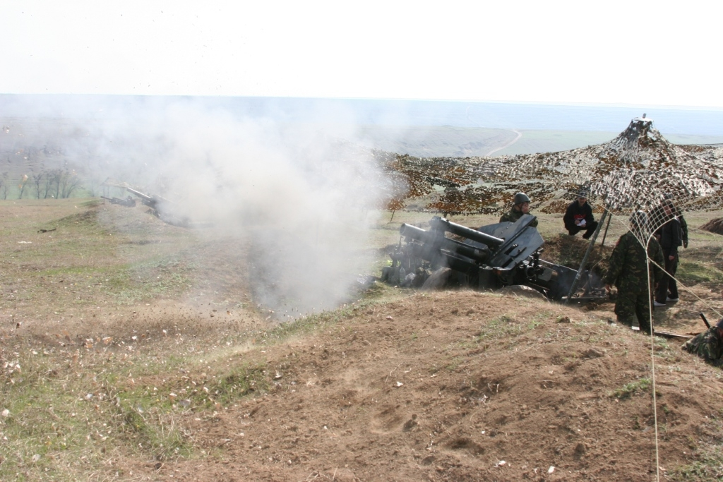 Artillery firings in Smardan shooting field.